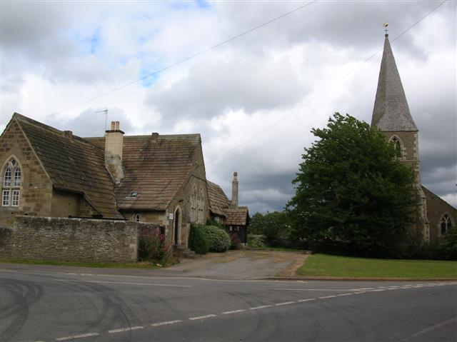 Church and School, Little Sessay. The Hamlet of Little Sessay, just south of the much larger Sessay Village.